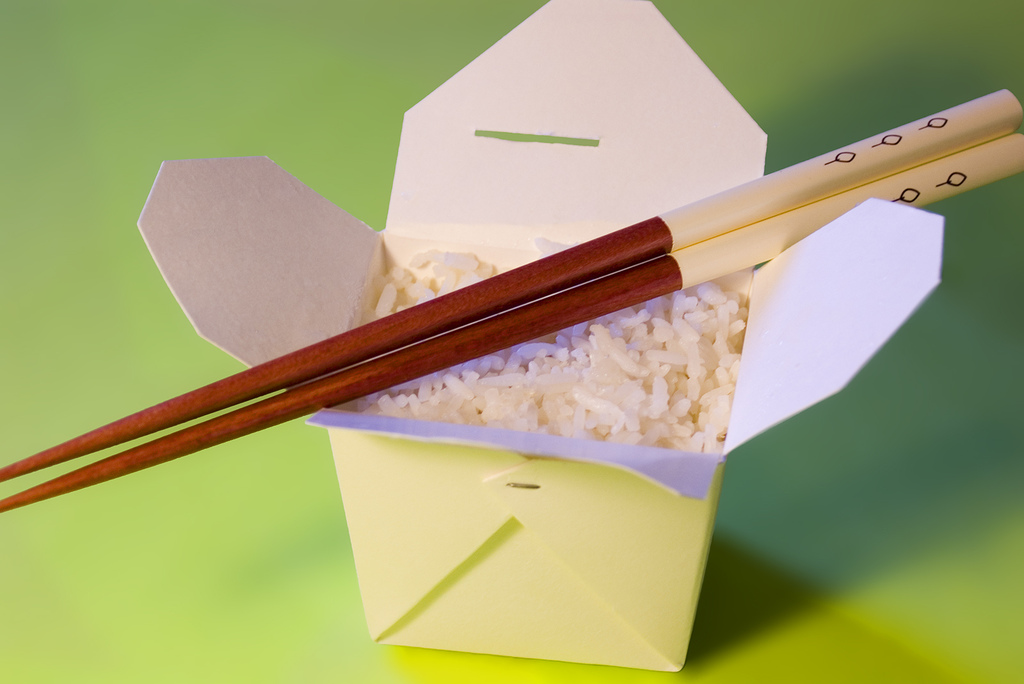 An oyster pail (Chinese takeout container) containing white rice, with a pair of chopsticks.